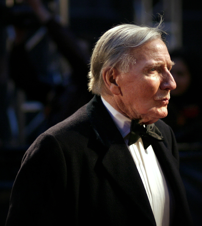 Leslie Phillips at the Orange British Academy Film Awards in London's Royal Opera House